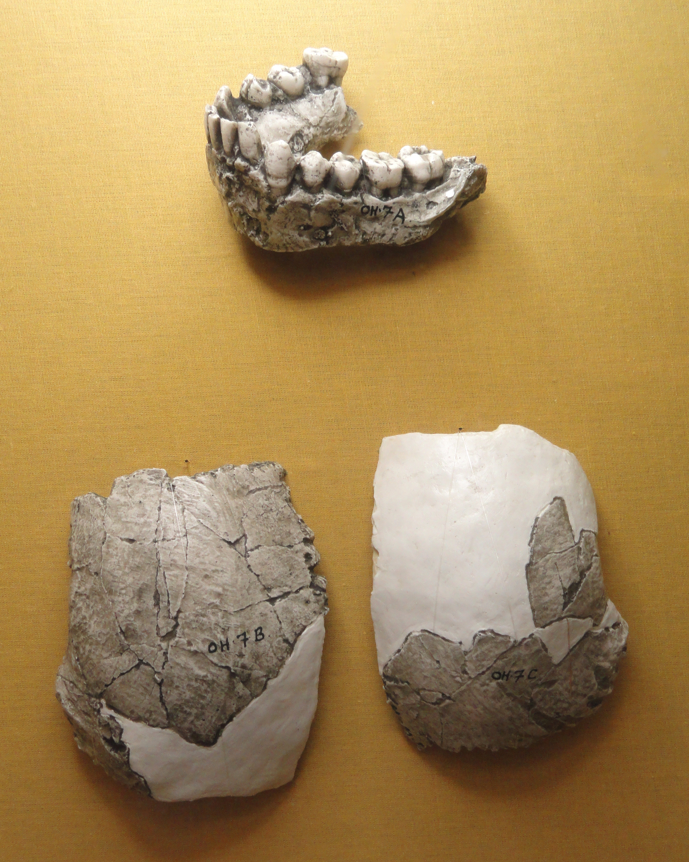 Exhibit in the Springfield Science Museum, 21 Edwards Street, Springfield, Massachusetts, USA. The museum permitted photography without restriction.